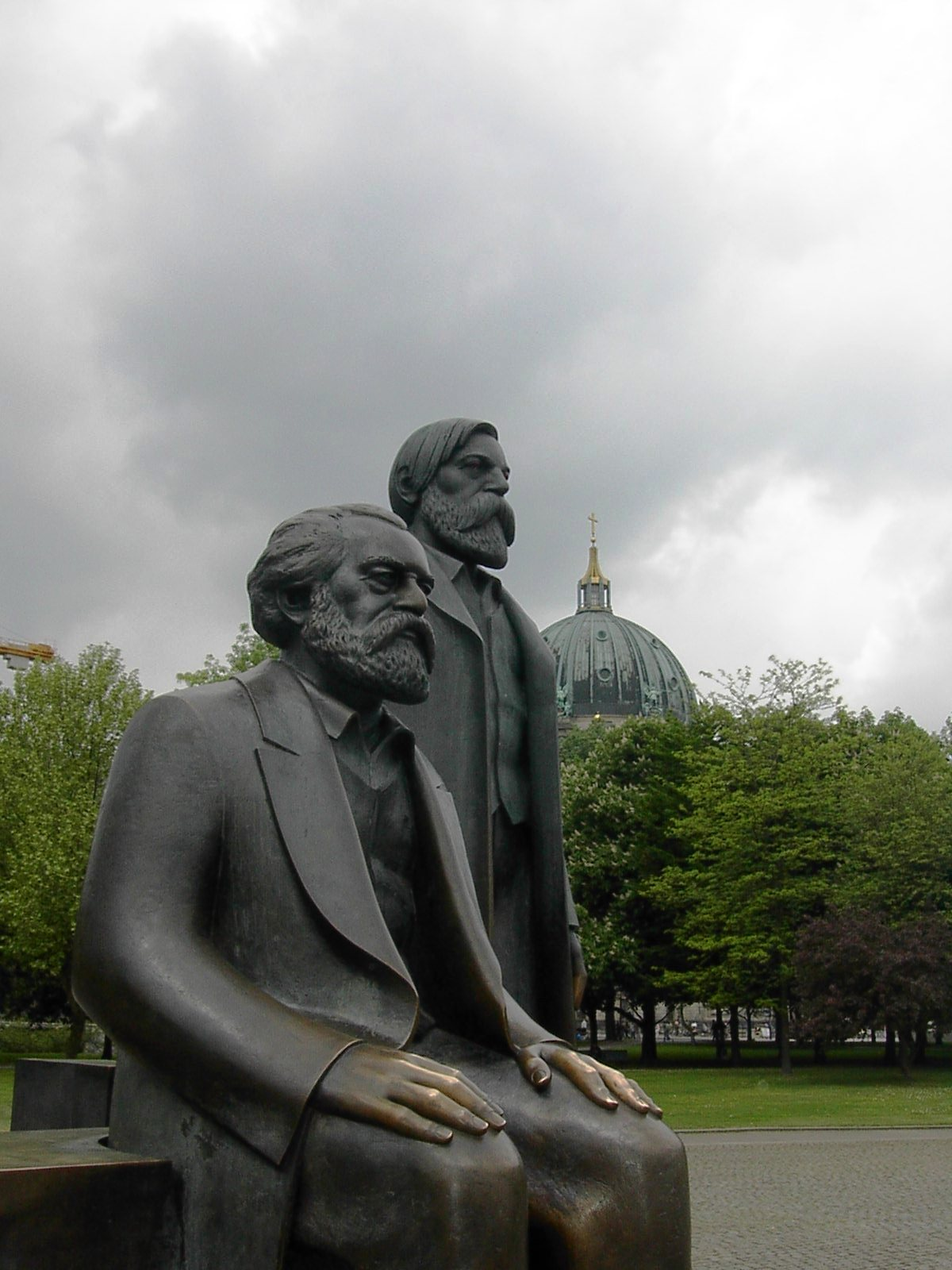 Statues of Karl Marx and Friedrich Engels., May 2006